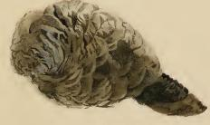 Stainton’s Natural History of the Tineina (1855–1873): Coleophora cracella larval case